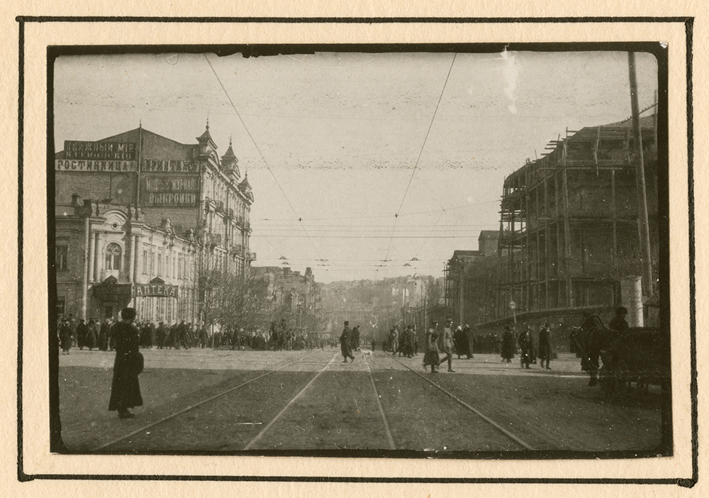 Title: [Street scene in Kiev] Creator: Unknown Date: Spring 1918 Part Of: Place: Kiev, Kyiv city, Ukraine Physical Description: 1 photographic print: gelatin silver; 5 x 7 cm. on 34 x 44 cm. mount File: ag1982_0048x_07a_sm_opt.jpg Rights: Please cite DeGolyer Library, Southern Methodist University when using this file. A high-resolution version of this file may be obtained for a fee. For details see the web page. For other information, . Both the full portfolio and the 263 individual photographs, scanned at a higher resolution, are available. View the full portfolio: View the individual photographs: For more information, View the